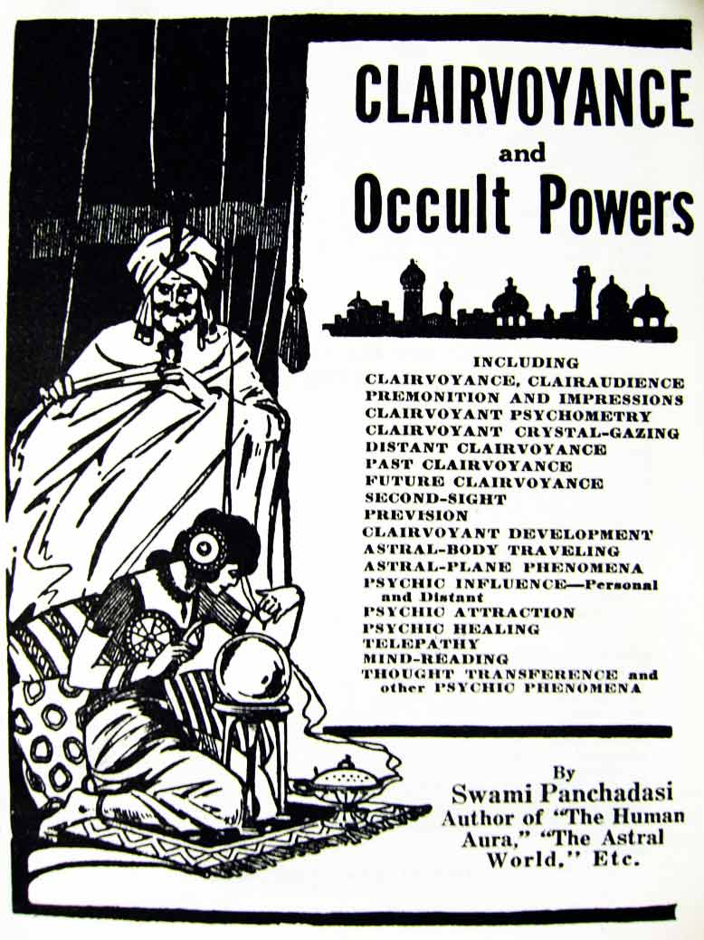 Clairvoyance and occult powers